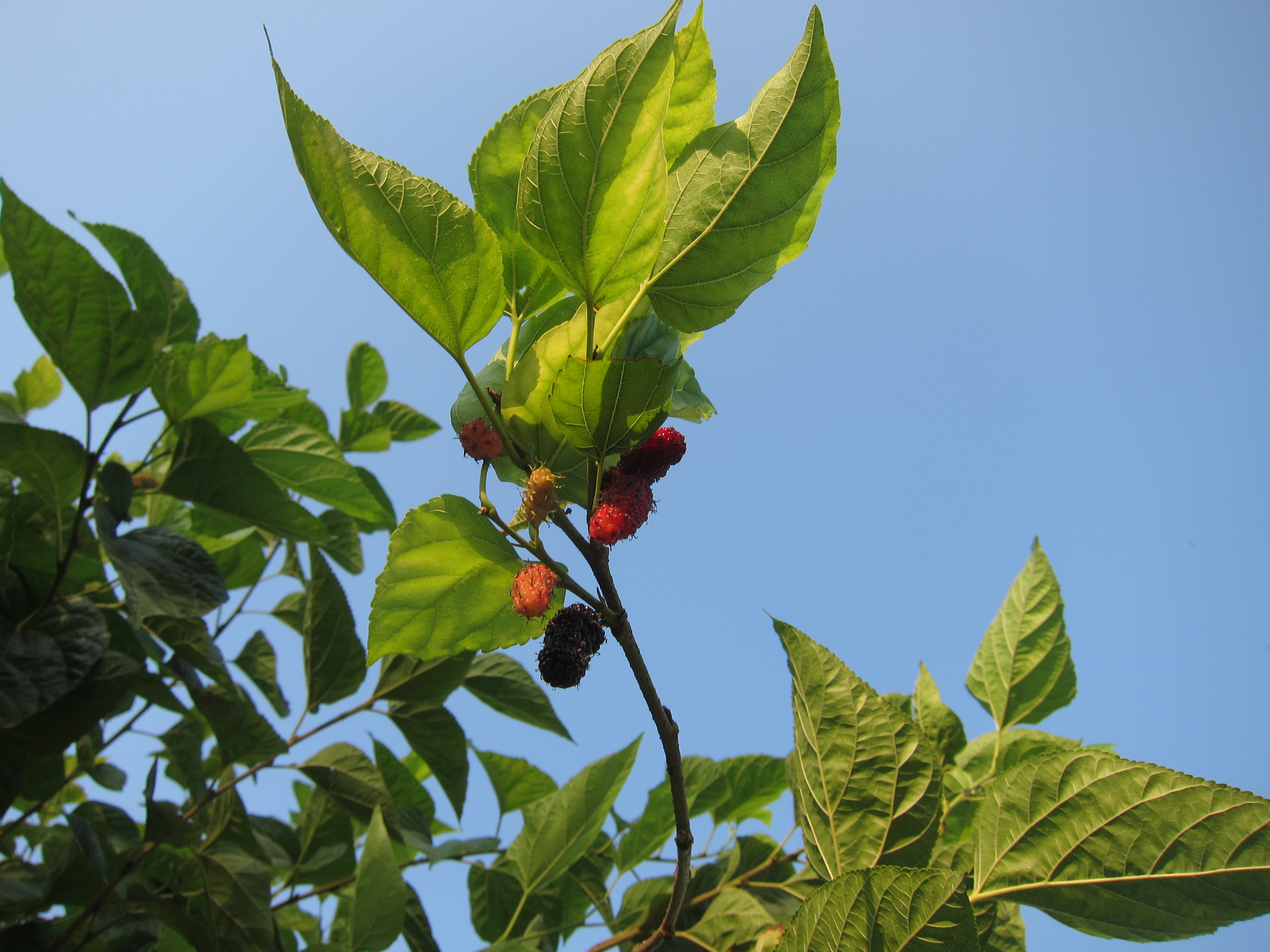 Mulberry - മൾബറി